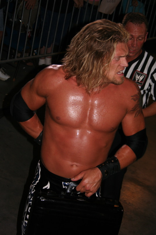 Edge (Adam Copeland) during a WWE house show held in Kitchener, Ontario, Canada on August 12, 2005.edge